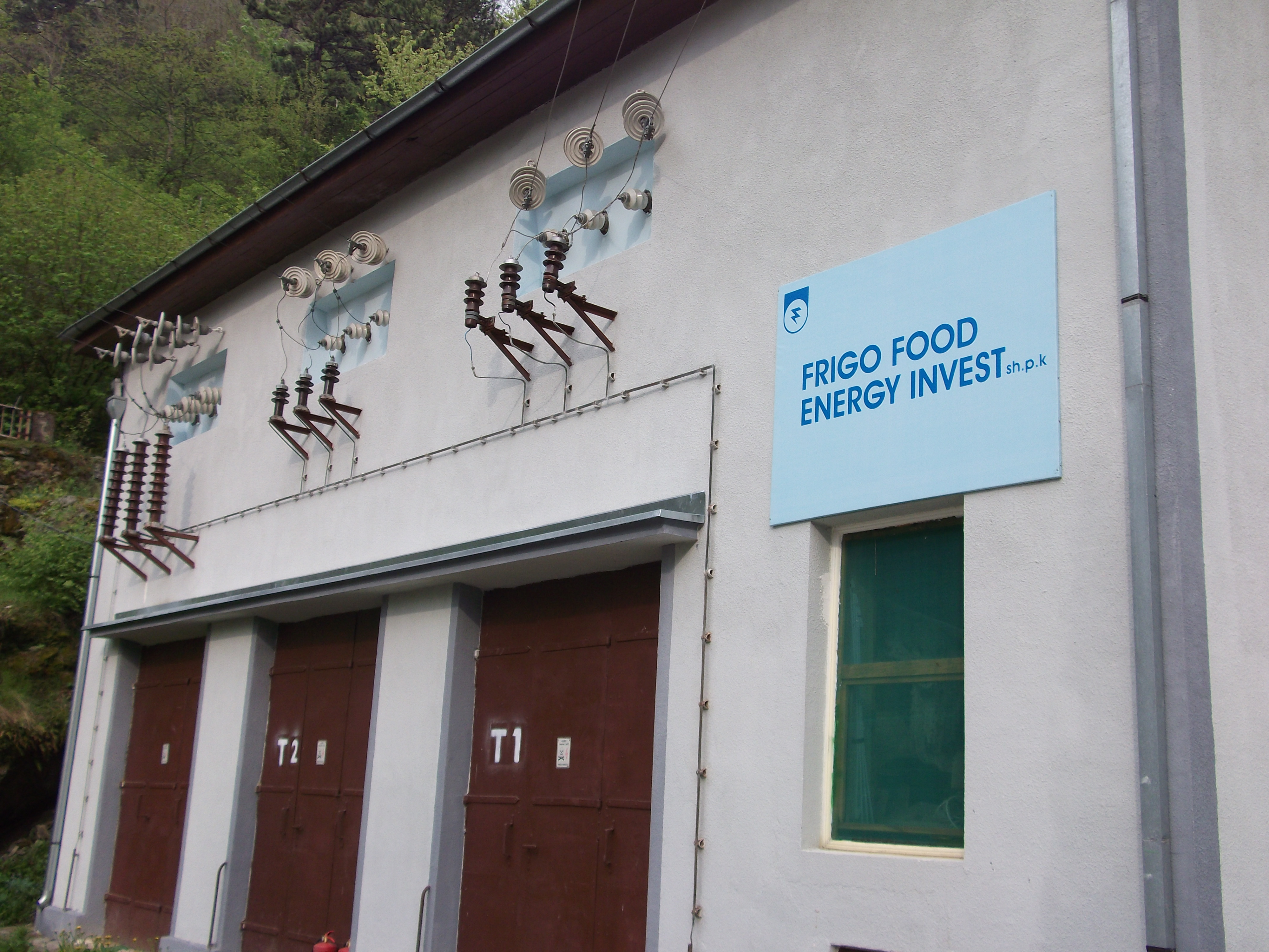 Hidrocentrali I Dikances – Dragash Kosove Hidrocentrali I dikances eshte I ndertuar ne vitn 1957 ne mallet e sharrit ne nje larsi mbidetare afo 1500m. ky hidrocentral ka qen ne funkcion deri ne vitin 2001 dhe ishte ne pronsi te korporates energjetike te kosoves. Pase nje ndrprerje afro 9 vjeqare hidrocentrali kthehet ne pune ne pronsi te Frigo Food Energy Invest. nga janri I vitit 2010. Gjendja e tanishme: Hidrocentrali punon me dy gjenerator me kapacitet maksimal prej 950 kWh energji elektrike, ne nje periudh 10 mujore, ndersa ne perioden e thatesirave zvoglon kapacitetin e prodhimit. Gjeneratoret jane te prodhuesit Rade Konqar prodhim I vitit 1975, ndersa rregullatori I rrymes I llojit Litostroj. Sistemi I furnizimit me uje behet nga lumi I Brodit me nje kanal te ndertuar me nje gjatesi 925m dhe me nje rezervuar akumulues me diameter 7,0 m dhe thellesi prej 7,0m (kapacitet 270 m3). Ramja e ujit nga rezervuari deri ne turbine behet me gyp me diameter prej 70 cm ne nje lartesi prej 115 m. Ne kete hidrocentral per momentin jane te punsuar 9 persona. Gjithashtu ka fillue edhe nderimi I gjeneratorit te tret me nje teknologji me te avancuar dhe me nje kapacitet me te madhe. Personat kontaktue ne vendin e ngjarjes: Nazyf Bojaxhiu dhe Visar Ibrahimi